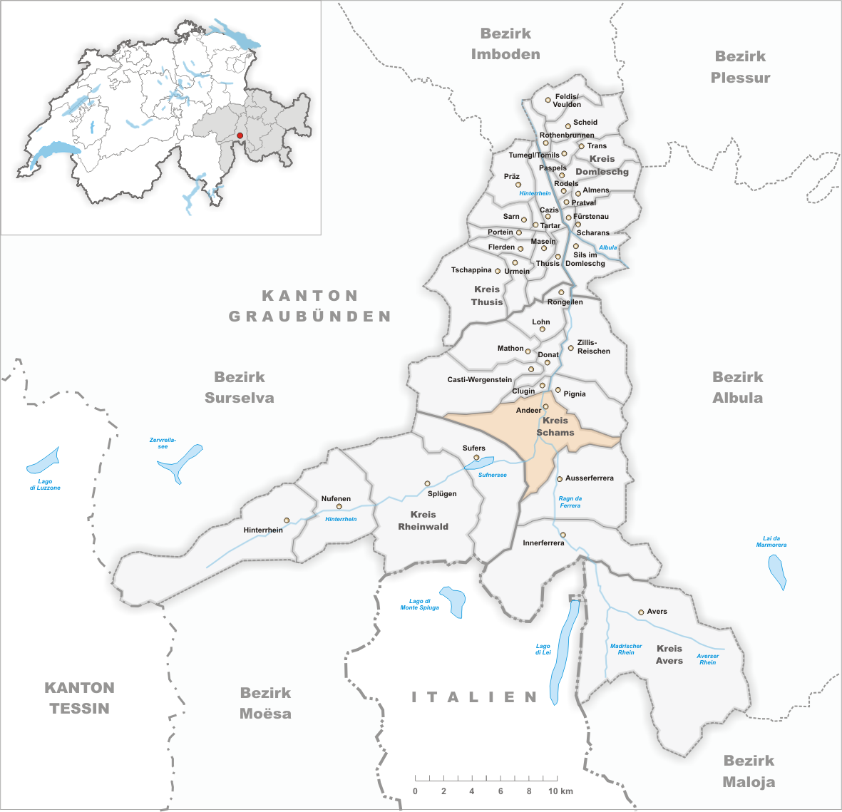 Municipality Andeer